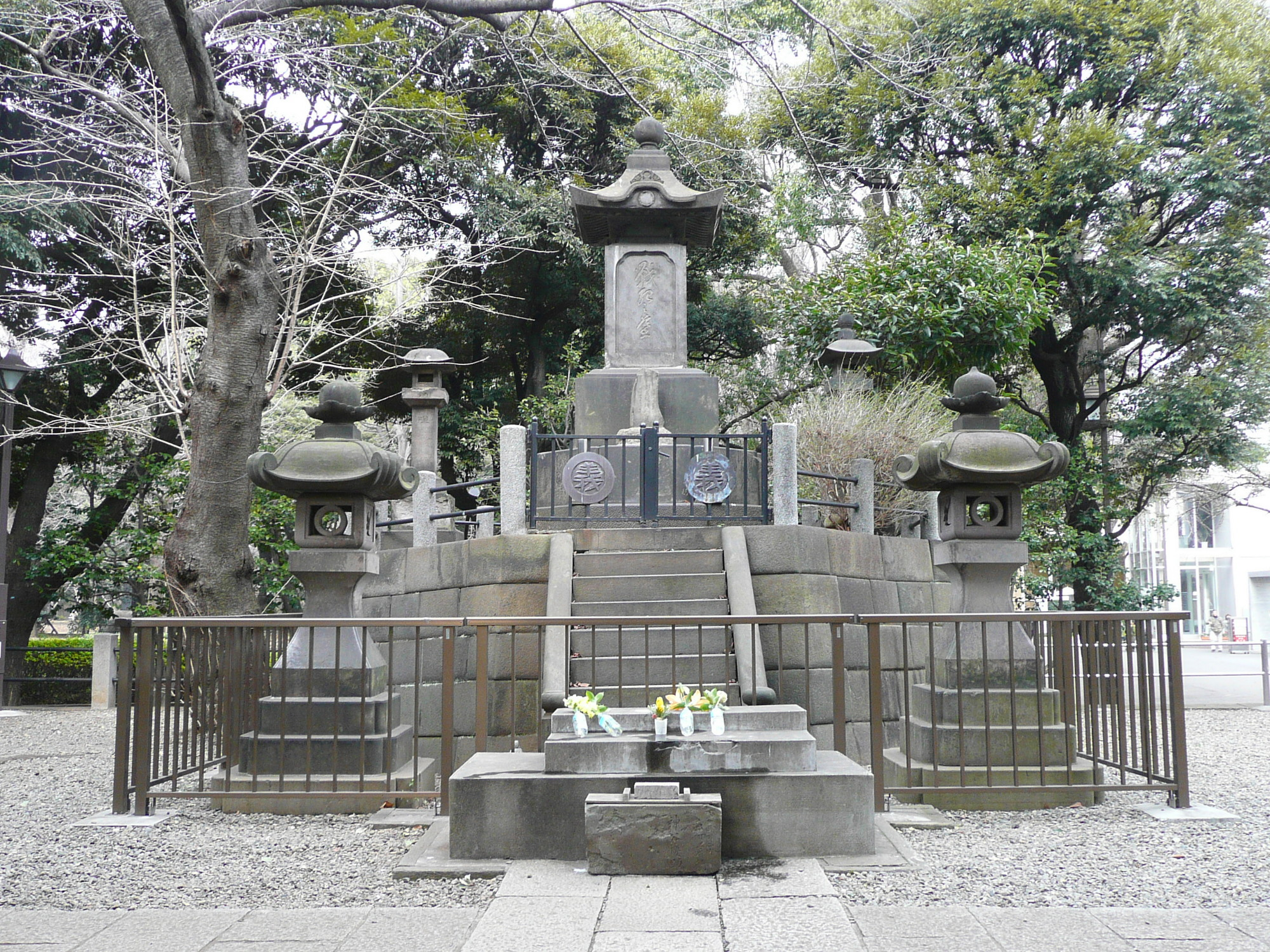 Ueno Shogitai tomb